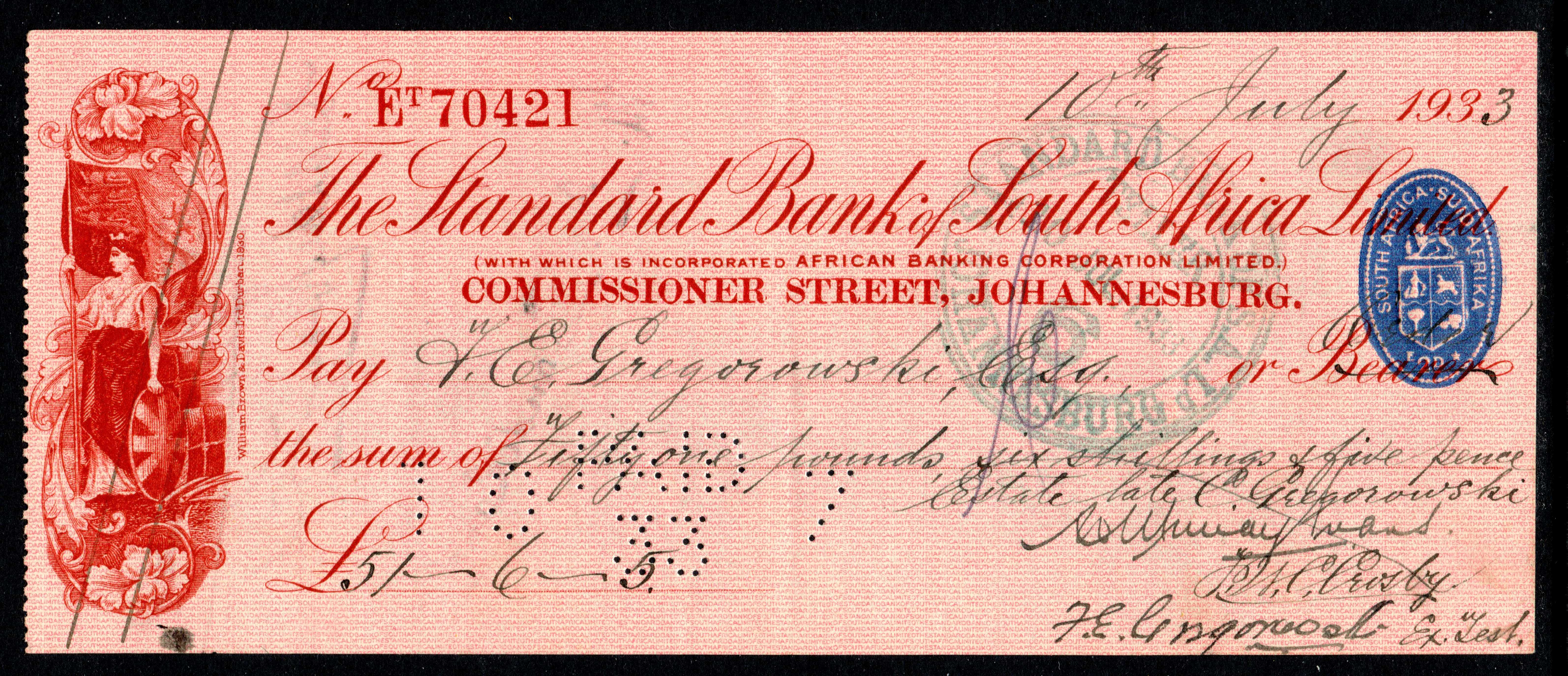 A 1933 cheque from the Standard Bank of South Africa Johannesburg with an impressed revenue stamp for 2 pence.